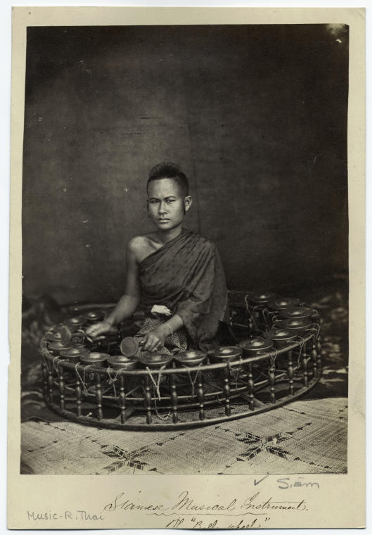 A black and white image of a Siamese (Thai) traditional musical instrument, the Khong wong lek. Digital ID: 832954 Notes: Written on mount: 'Siam' Unrelated image on verso. Printed on verso: 'A Siam' Source: Mid-Manhattan Picture Collection / Music -- regional -- M-Z ( more info ) Repository: The New York Public Library. Mid-Manhattan Library. Picture Collection. See more information about this image and others at NYPL Digital Gallery . Persistent URL: Rights Info: No known copyright restrictions; may be subject to third party rights (for more information, click here )